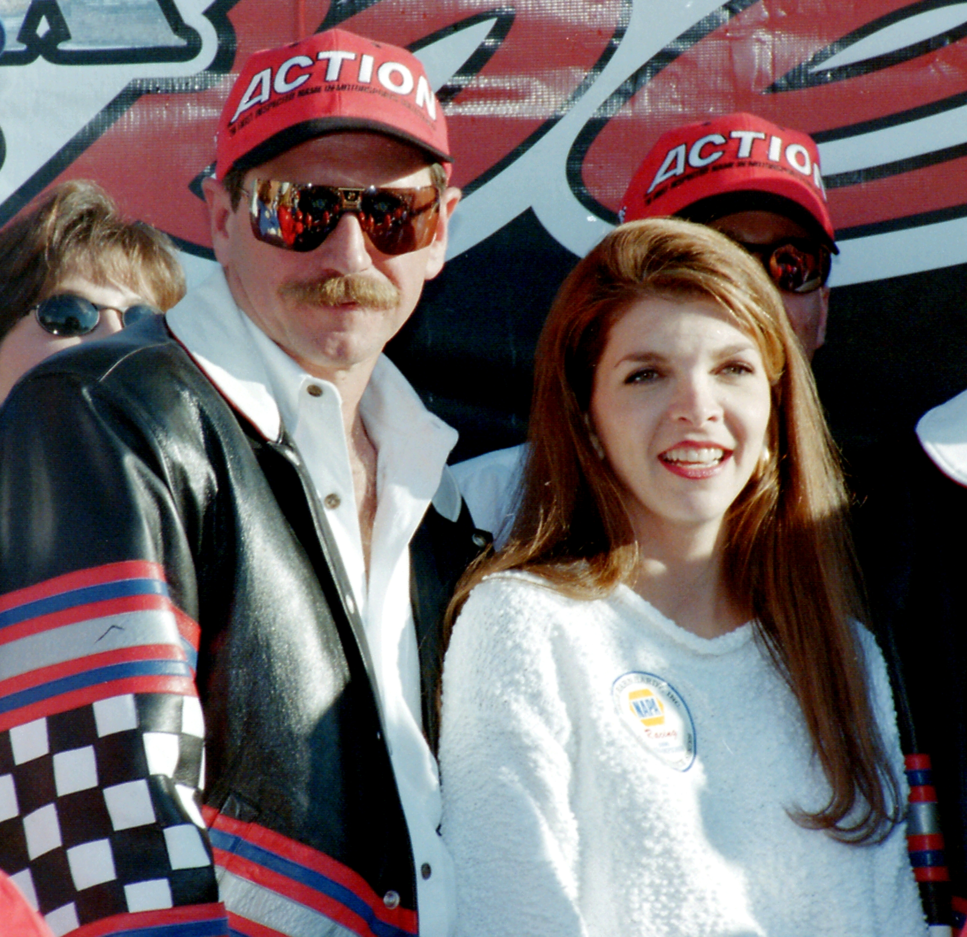 NASCAR champion Dale Earnhardt and his wife Teresa Earnhardt in the mid 1990s.